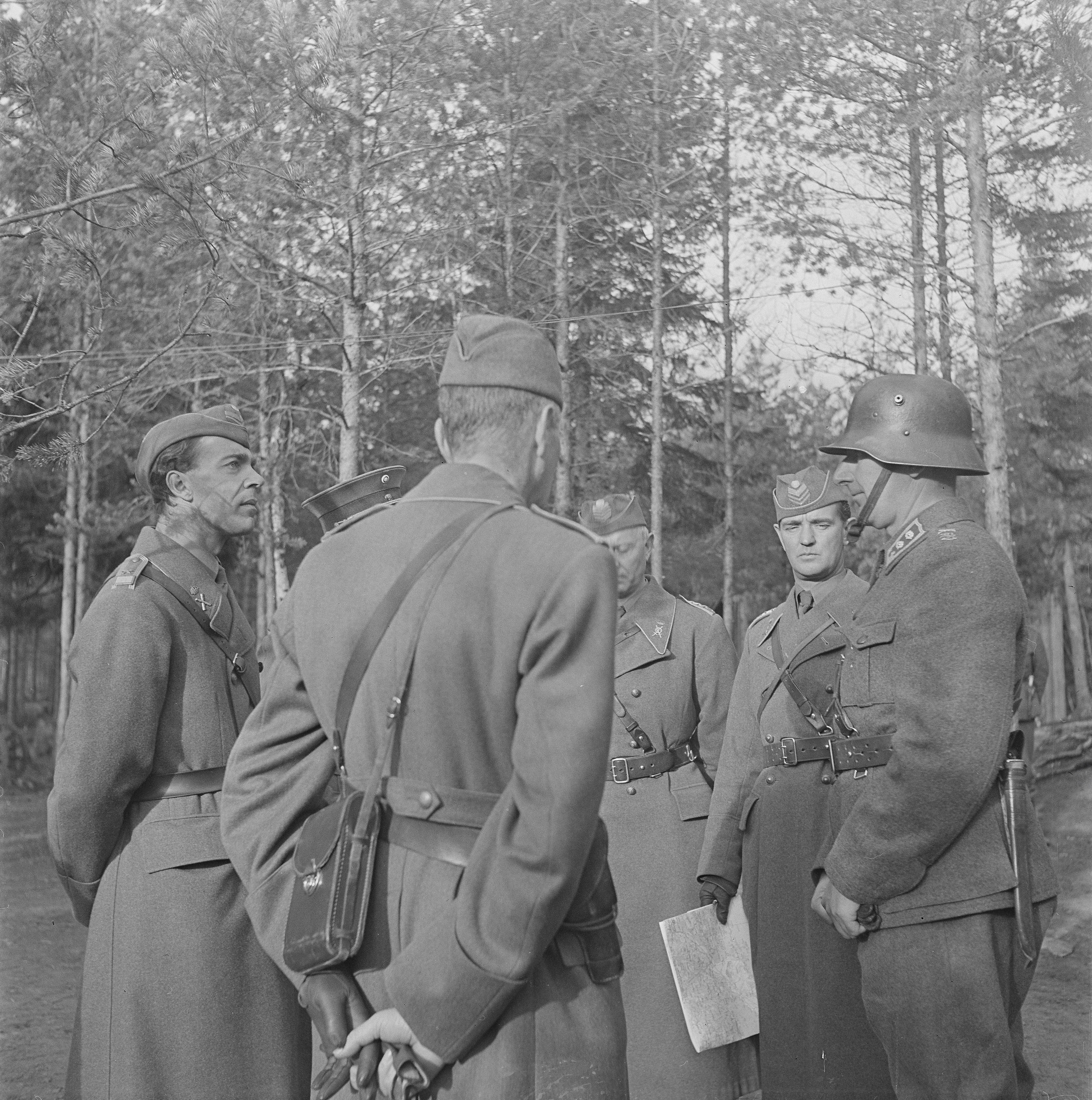 Prince of Sweden Gustaf Adolf visited in September-Oktober 1941 in Finland e.g. in Hanko